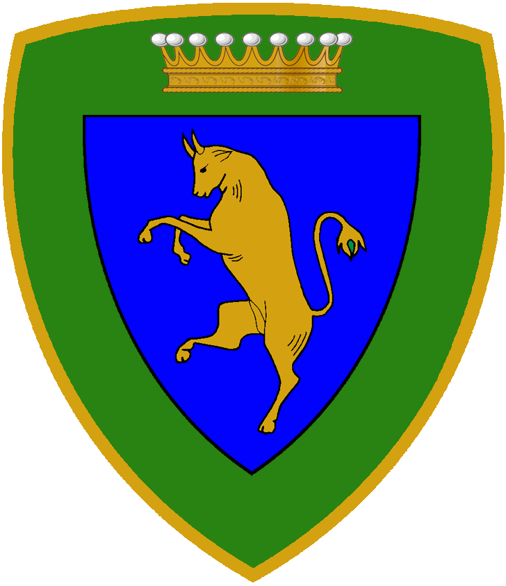 Coat of Arms of the Italian Army Alpine Brigade Taurinense